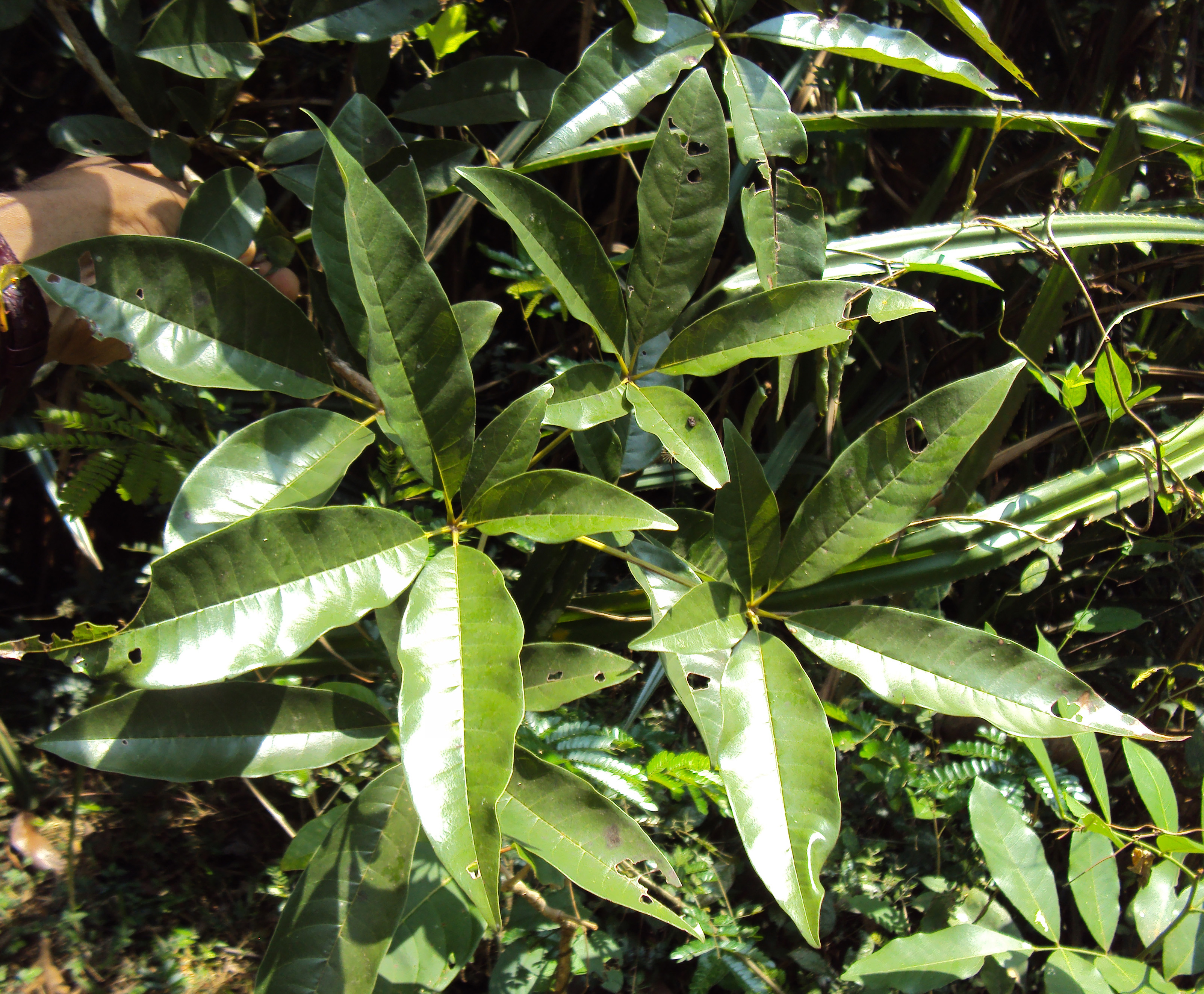 Vitex leucoxylon